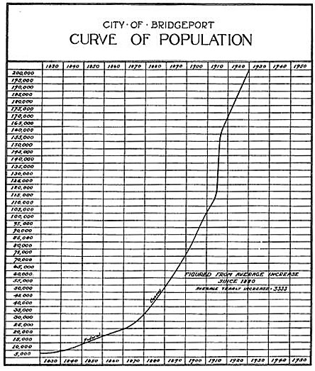 Bridgeport's population grew rapidly as it became an industrial center and then exploded as it became the center of munitions manufacturing in WWI. John Nolan was a city planner who published a detailed report with suggestions on how Bridgeport could deal with this growth.